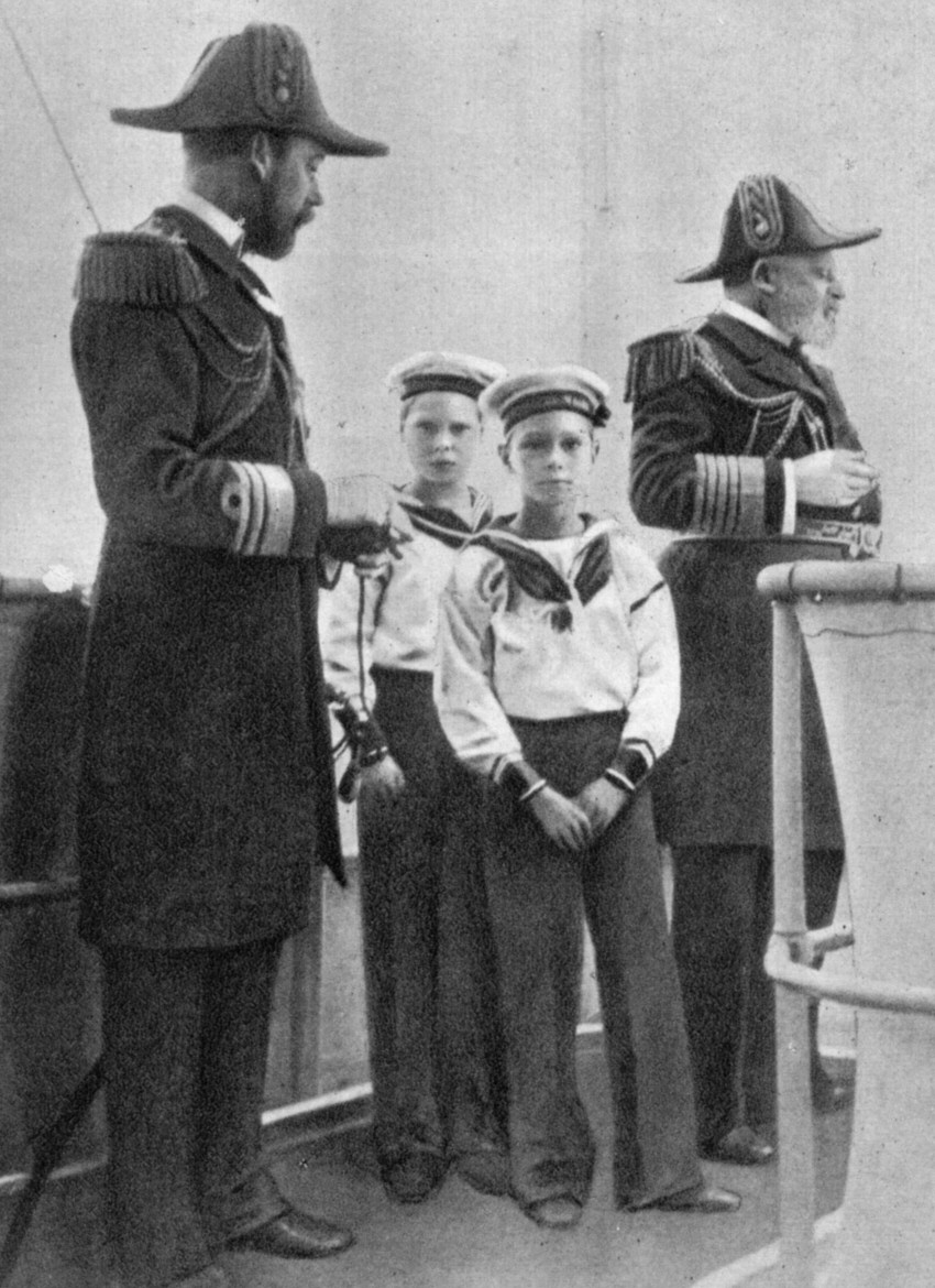 King Edward VII of the United Kingdom (right) together with his son Prince George, the Prince of Wales, later George V (left), and his grandsons, Prince Edward of Wales, later Edward VIII, and Prince Albert of Wales, later George VI. Taken by Queen Alexandra, Edward VII’s wife. Printed in Queen Alexandra’s Christmas gift book, published for charity by the Daily Telegraph, London, 1908.